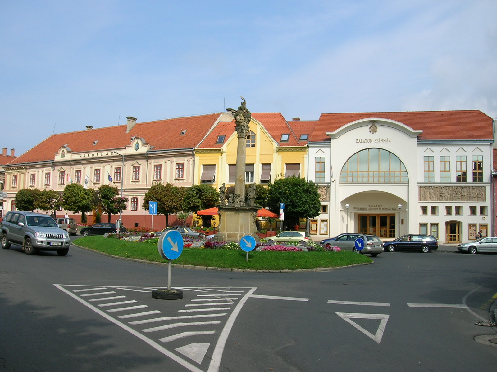 Town centre. Keszthely, Hungary.